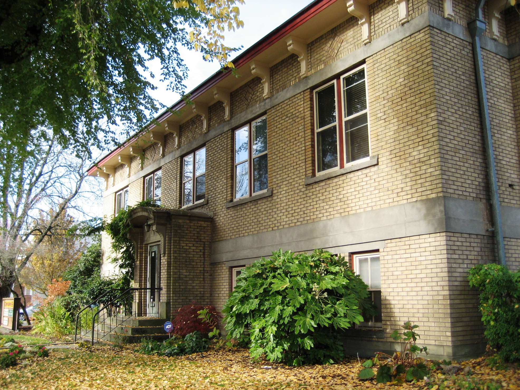 Hillsboro Public Library's old Carnegie Library location